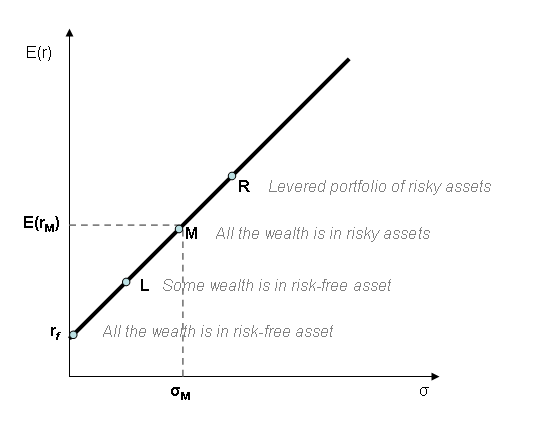 Capital market line plot